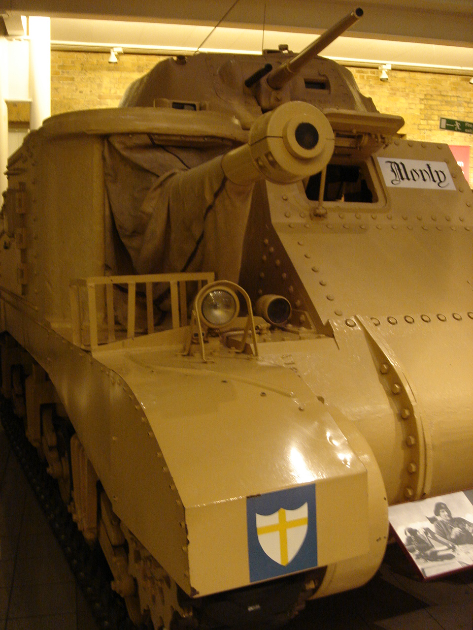 M3 Grant tank used by Field Marshal Montgomery in WW2. Detail of the main gun. Imperial War Museum, London.